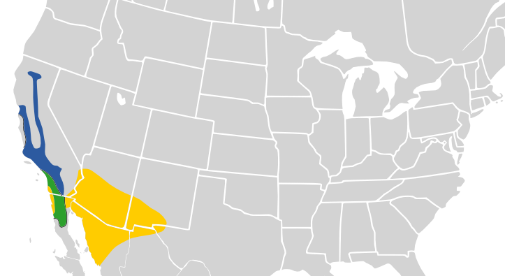 Distribution map of Lawrence's Goldfinch (Carduelis lawrencei). Blue: breeding, green: year-round, yellow: wintering